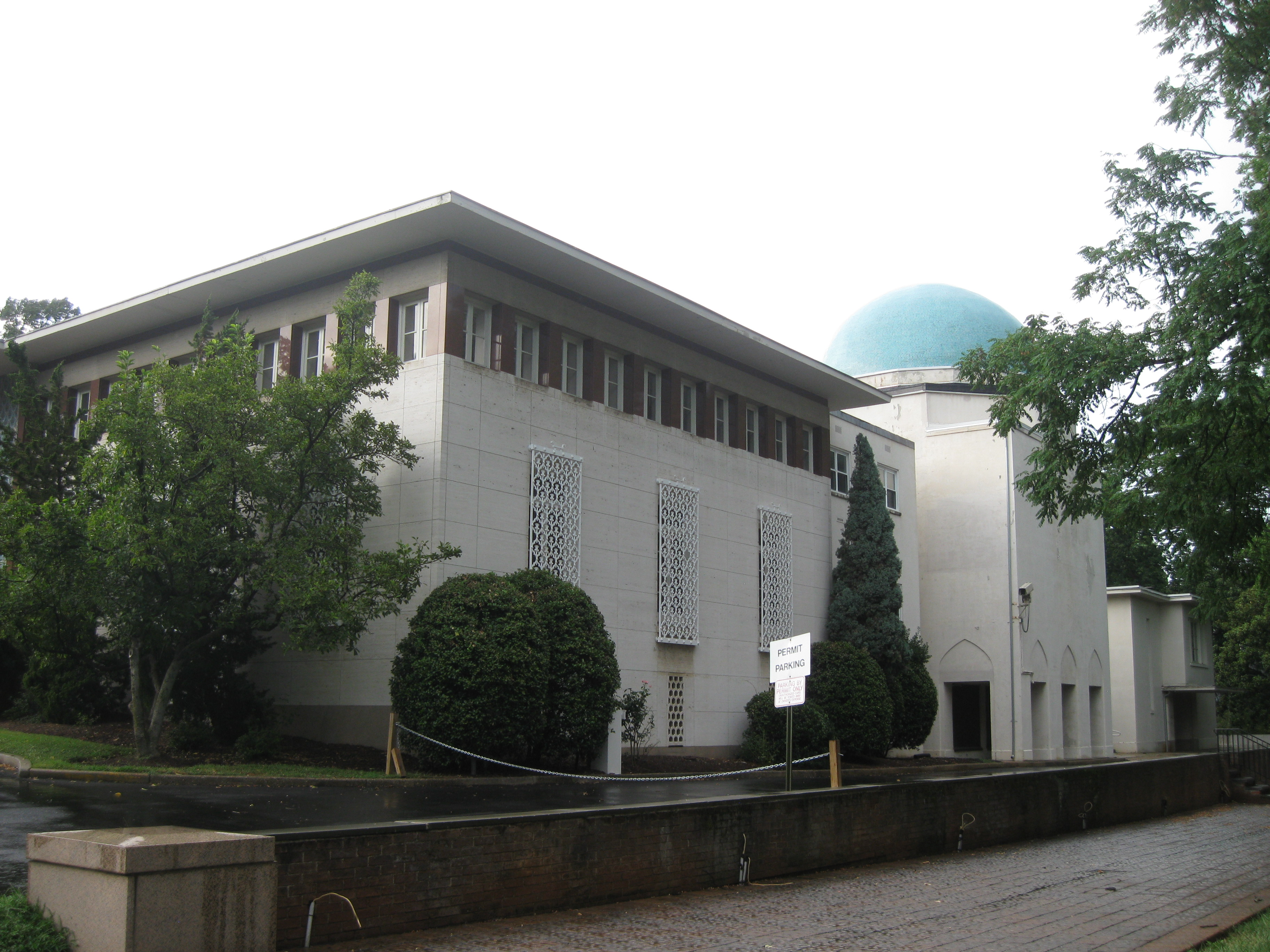 Former Iranian embassy at Washington D.C. The US State Department is the current custodian of the building, which was built in 1959..